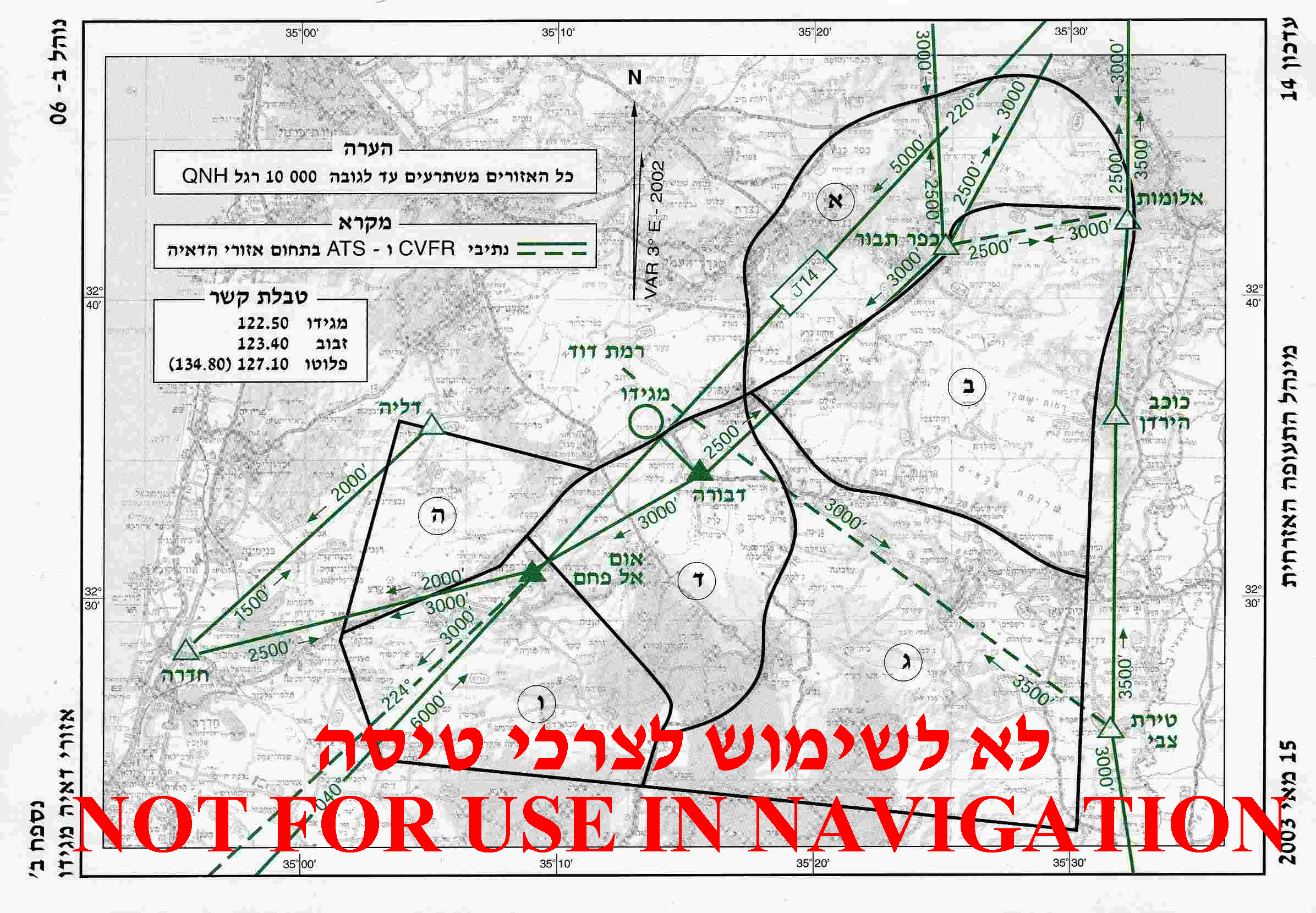 Gliding areas chart of Megiddo (Israel) airfield